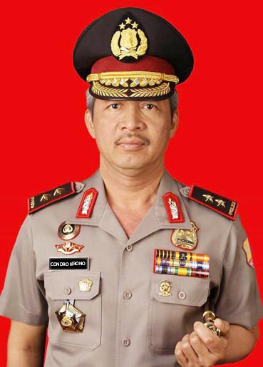 Irjen Condro Kirono